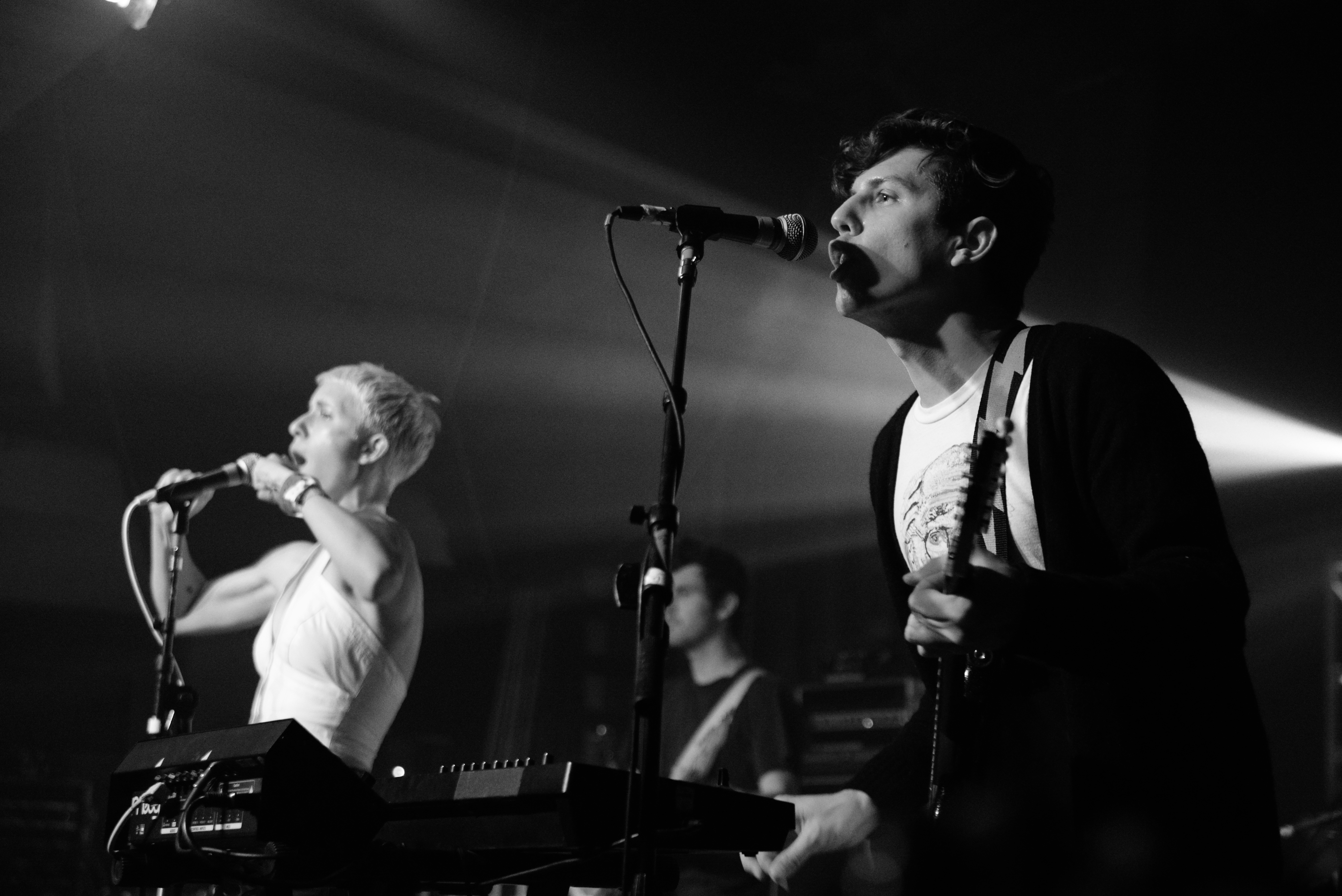 Yacht-El Korah Shrine-Treefort2015-Credit-Kasey Elliott